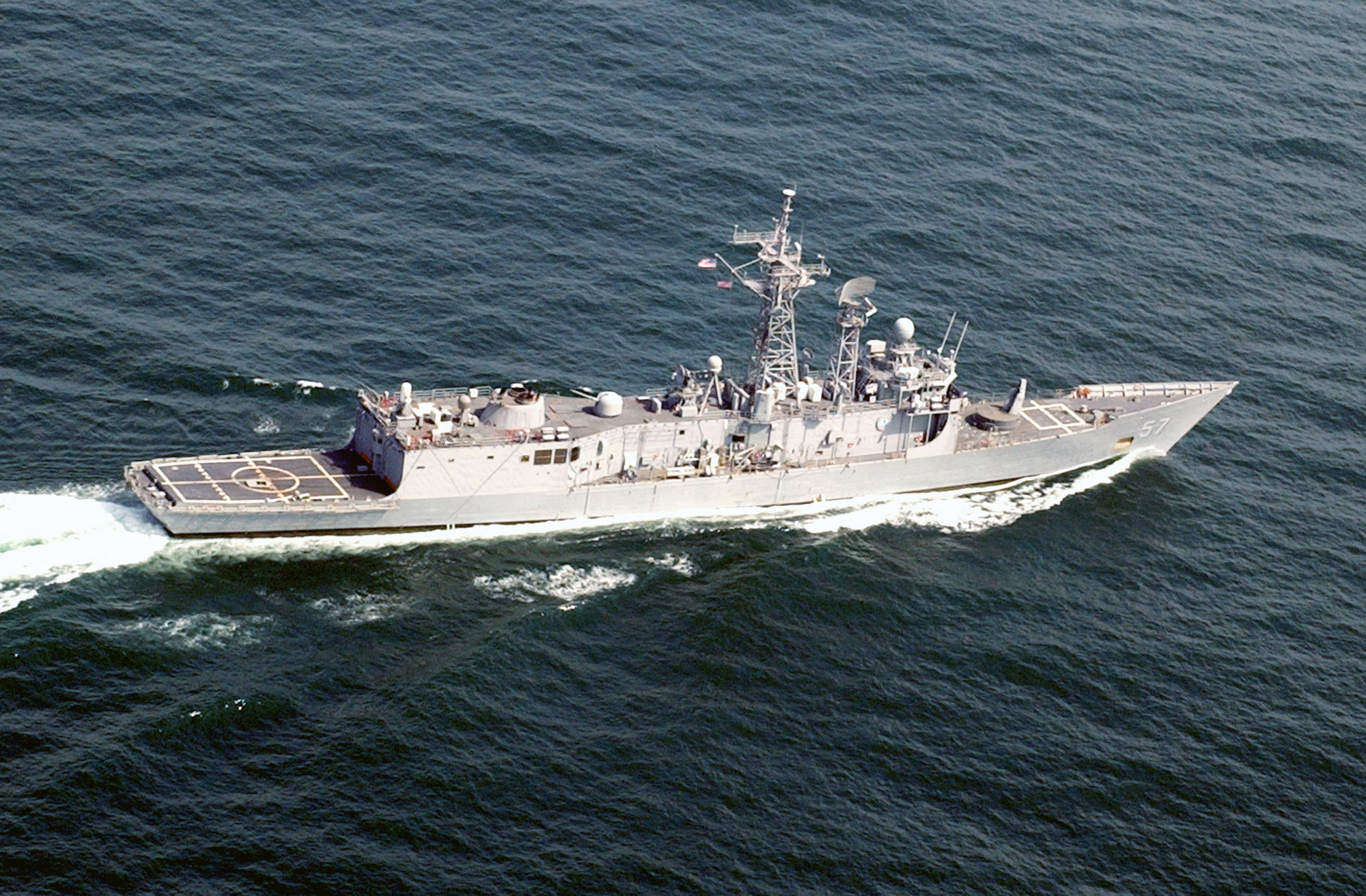 At sea with USS Reuben James (FFG 57) Sep. 23, 2002 -- An aerial view of the U.S. Navy guided missile frigate USS Reuben James (FFG 57). Frigates fulfill a protection of shipping (POS) mission as Anti-Submarine Warfare (ASW) combatants for amphibious expeditionary forces, underway replenishment groups and merchant convoys. Reuben James is a part of the USS Abraham Lincoln (CVN 72) Battle Group and is on a regularly scheduled deployment conducting combat missions in support of Operation Enduring Freedom. U.S. Navy photo by Photographer’s Mate 2nd Class Aaron Ansarov. (RELEASED)